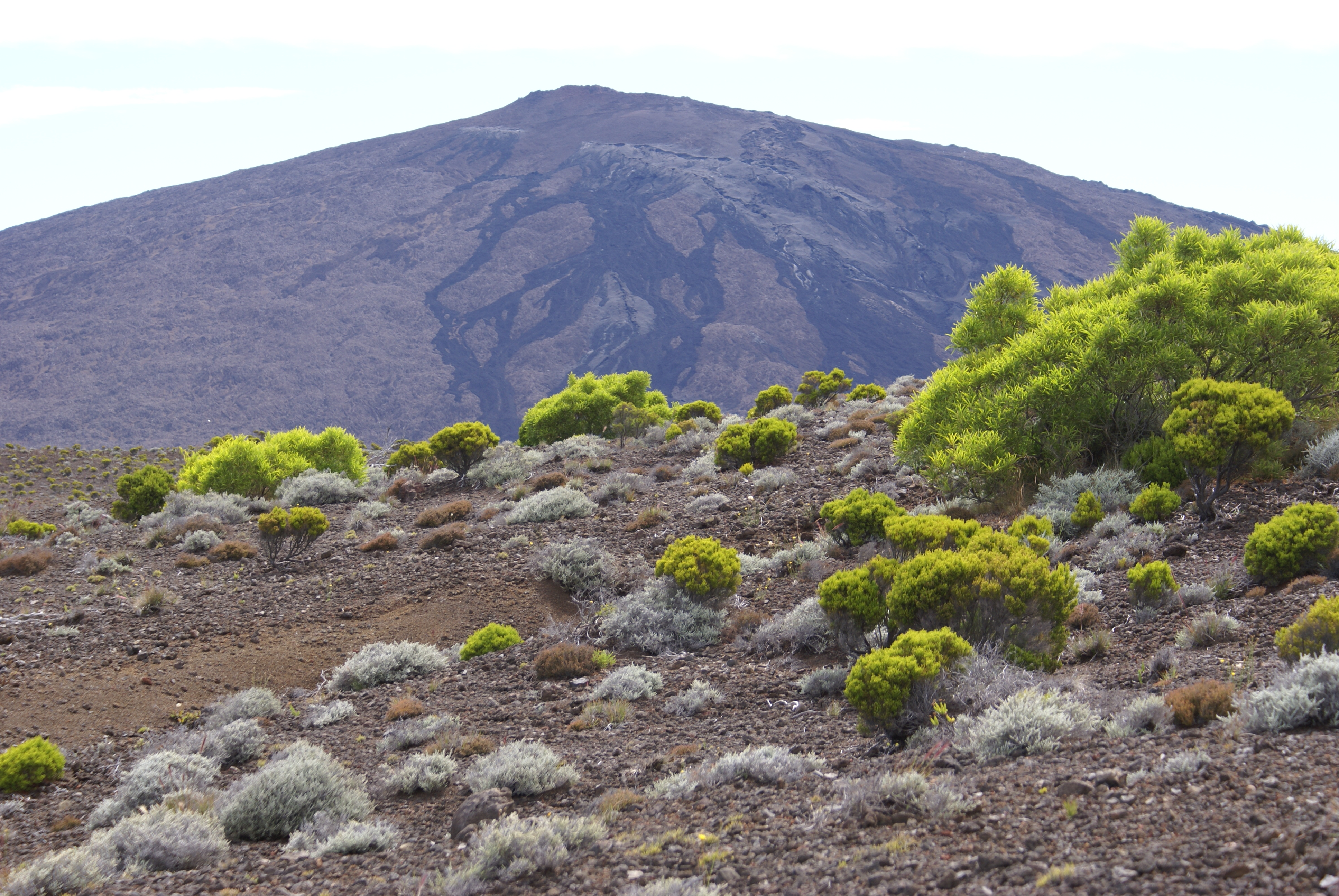 Open bushland in the high altitudes on mount Fournaise of Réunion (with Erica réunionensis, Stoebe passerinoides, Acacia heterophylla, Erica galioides, etc.).